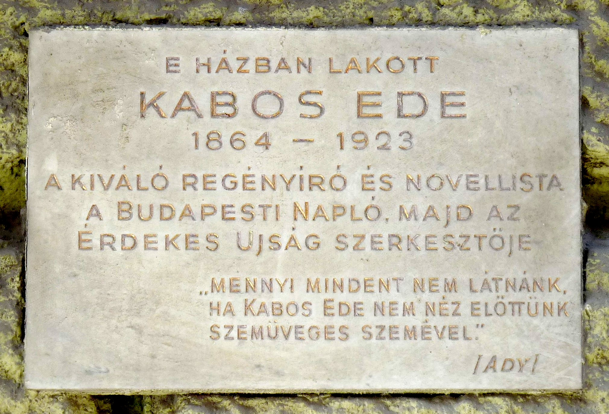 Commemorative plaque to Mr. Ede Kabos (1864-1923) Hungarian writer, story-writer and editor, affixed on the wall of his former home in Budapest. (Budapest, District VI, Eötvös Street Nr 32).